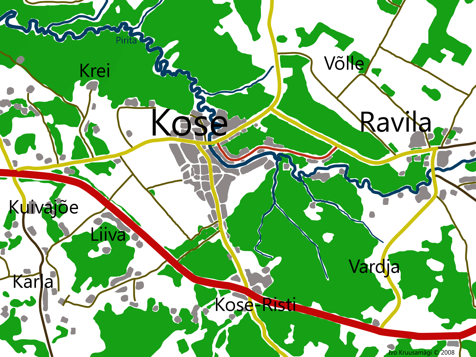 Map of Kose, Harjumaa, Estonia.